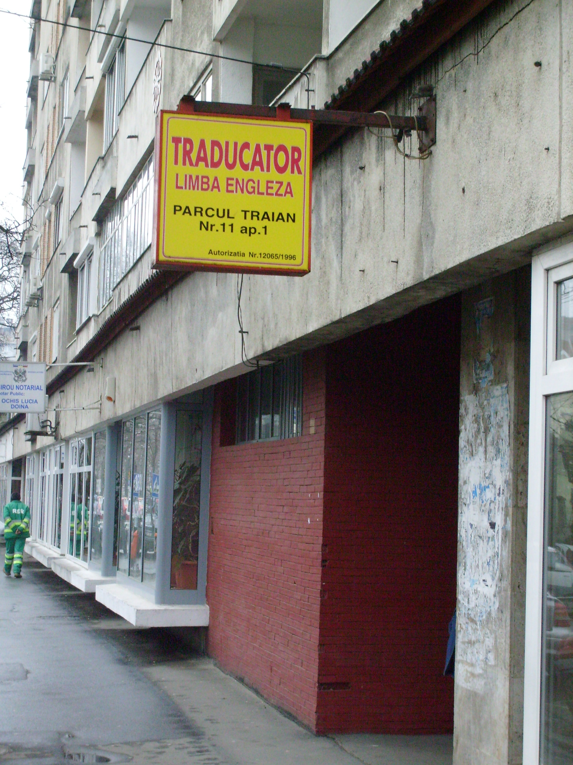 The entrance to the St. Brigita Church, Oradea.